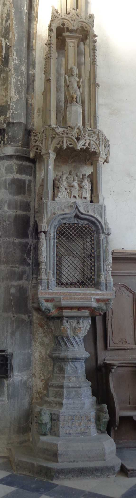 La théothèque (tabernacle de pierre) dans le chœur